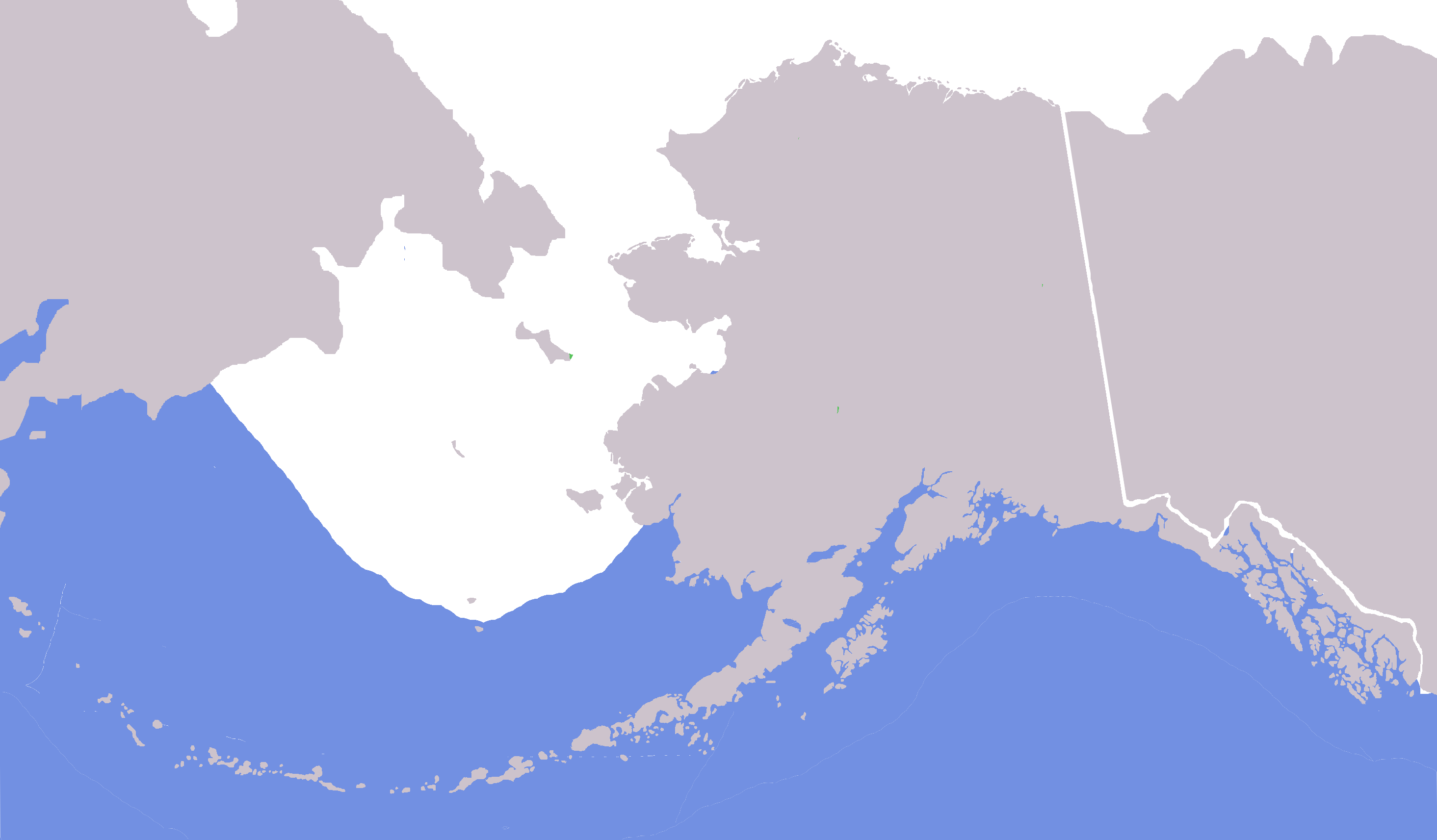 Range of Phocoenoides dalli in Alaska